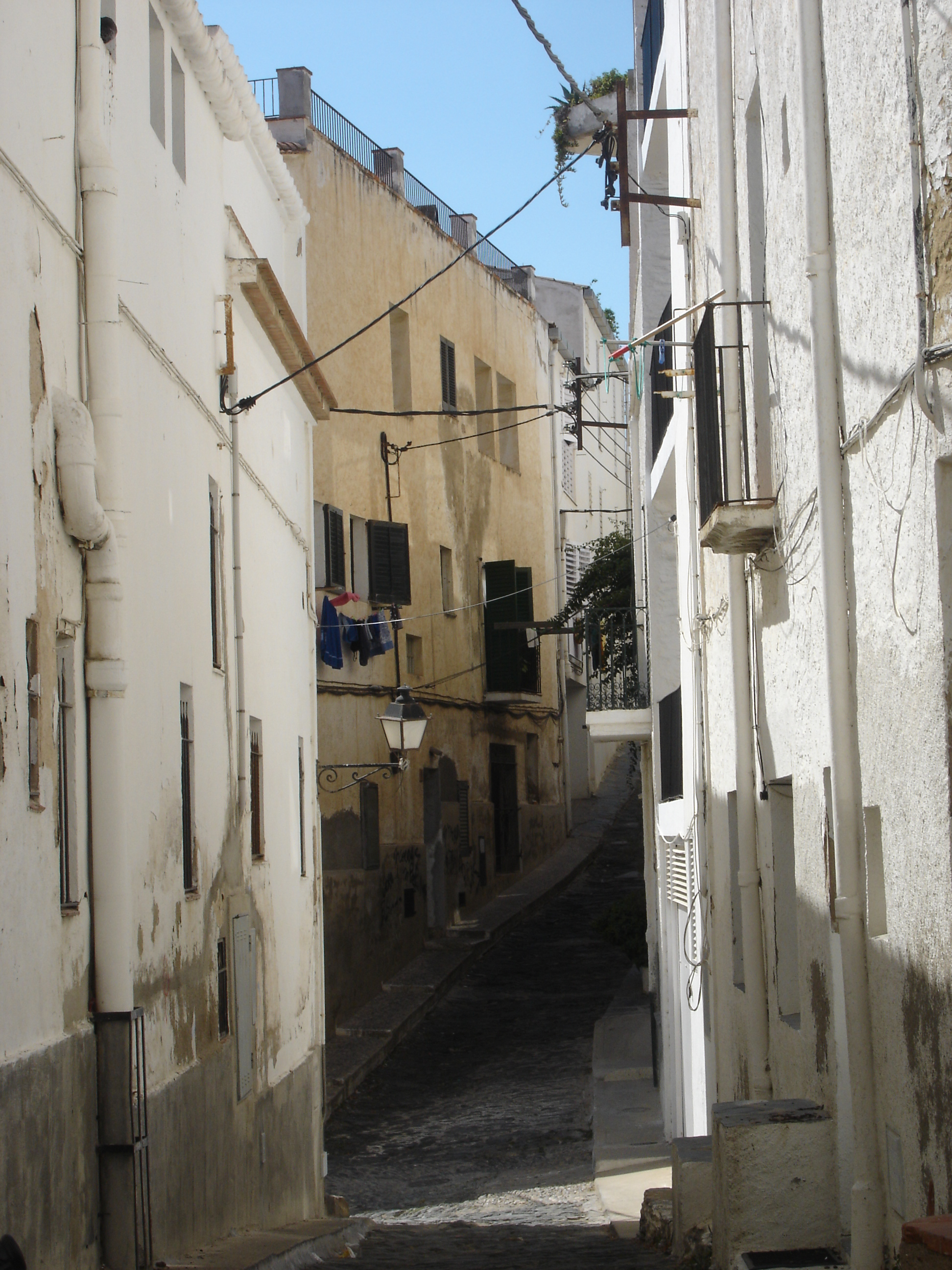 Cadaqués typical back street (shot near the church). (Spain)